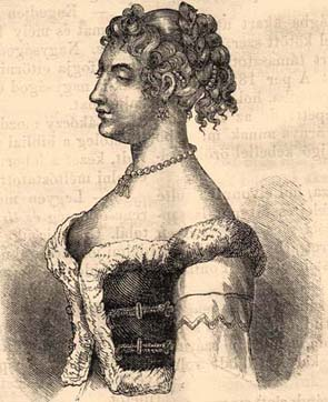 Portrait of Josephine Fodor